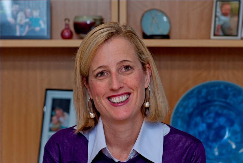 Photo of Katy Gallagher, ACT Chief Minister.